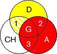 Germany-ism from the perspective of Austrian German.